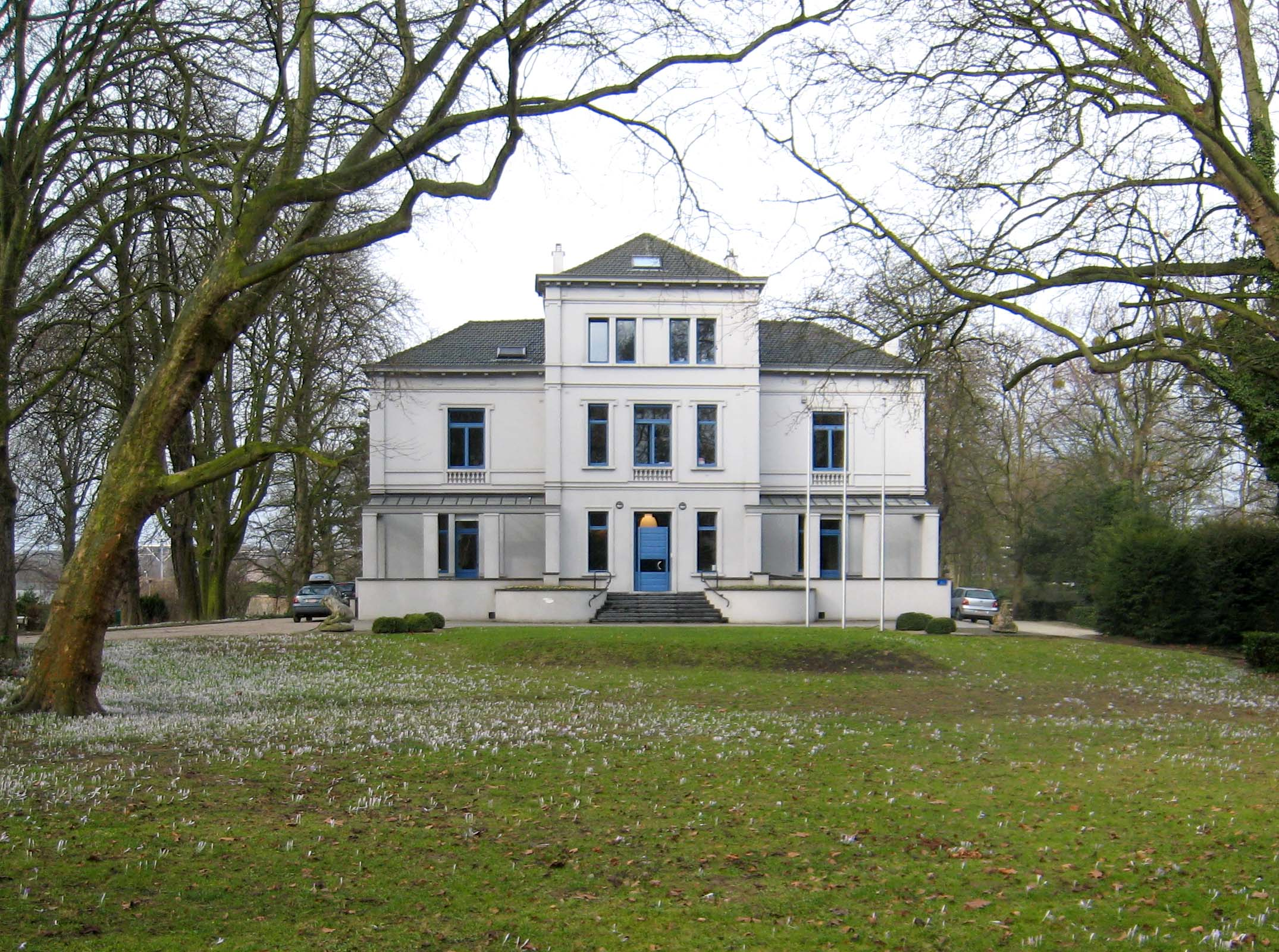 Zaventem town hall (gemeentehuis).